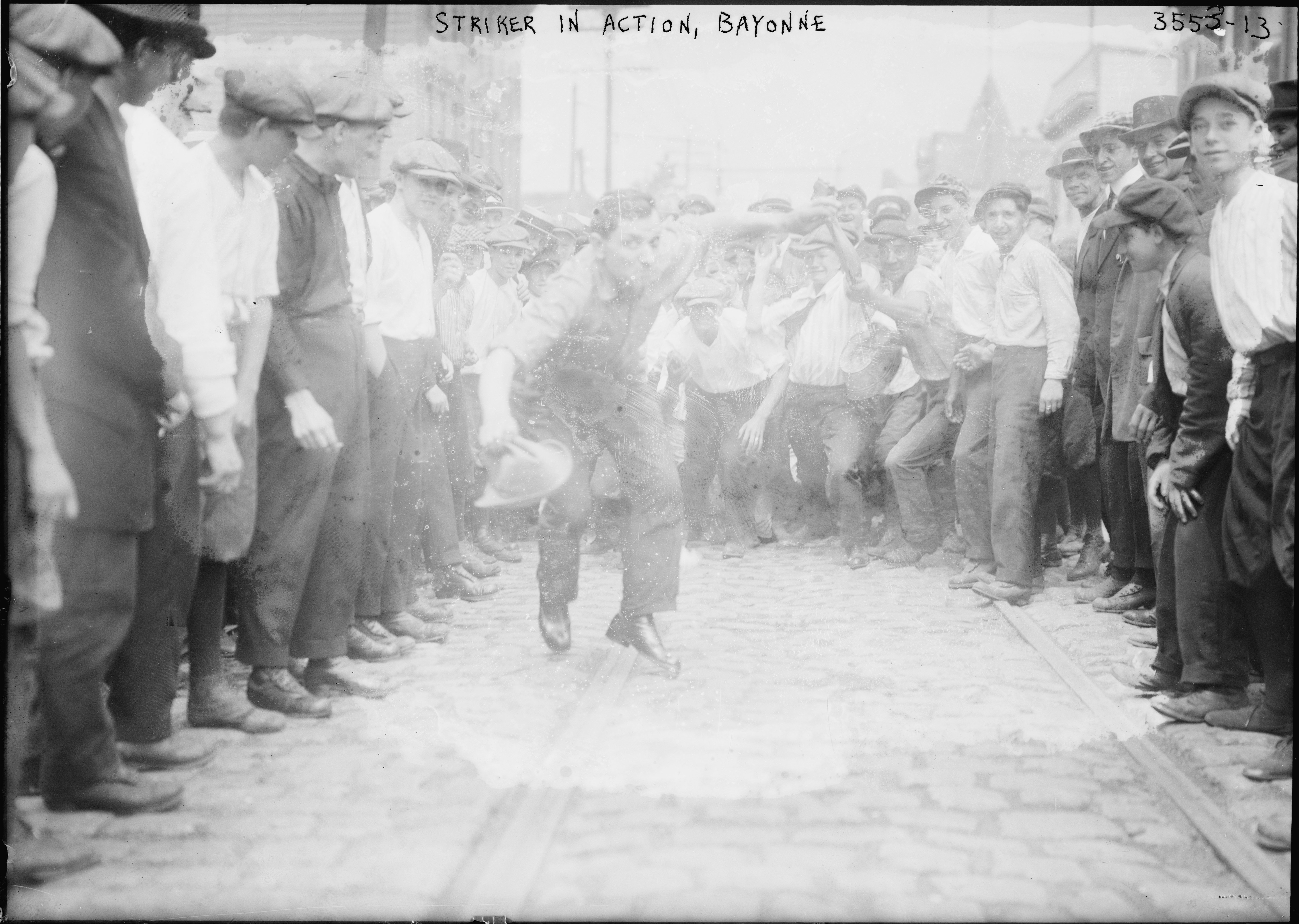 Title: Strikers in action, Bayonne Abstract/medium: 1 negative : glass ; 5 x 7 in. or smaller.